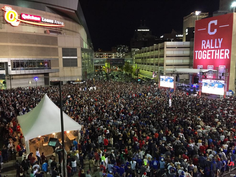 A gathering of baseball fans fills the plaza between Quicken Loan Arena and Progressive Field in Cleveland, Ohio, during Game 7 of the World Series between the Cleveland Indians and Chicago Cubs, Nov. 2, 2016. (K.Farabaugh-VOA)